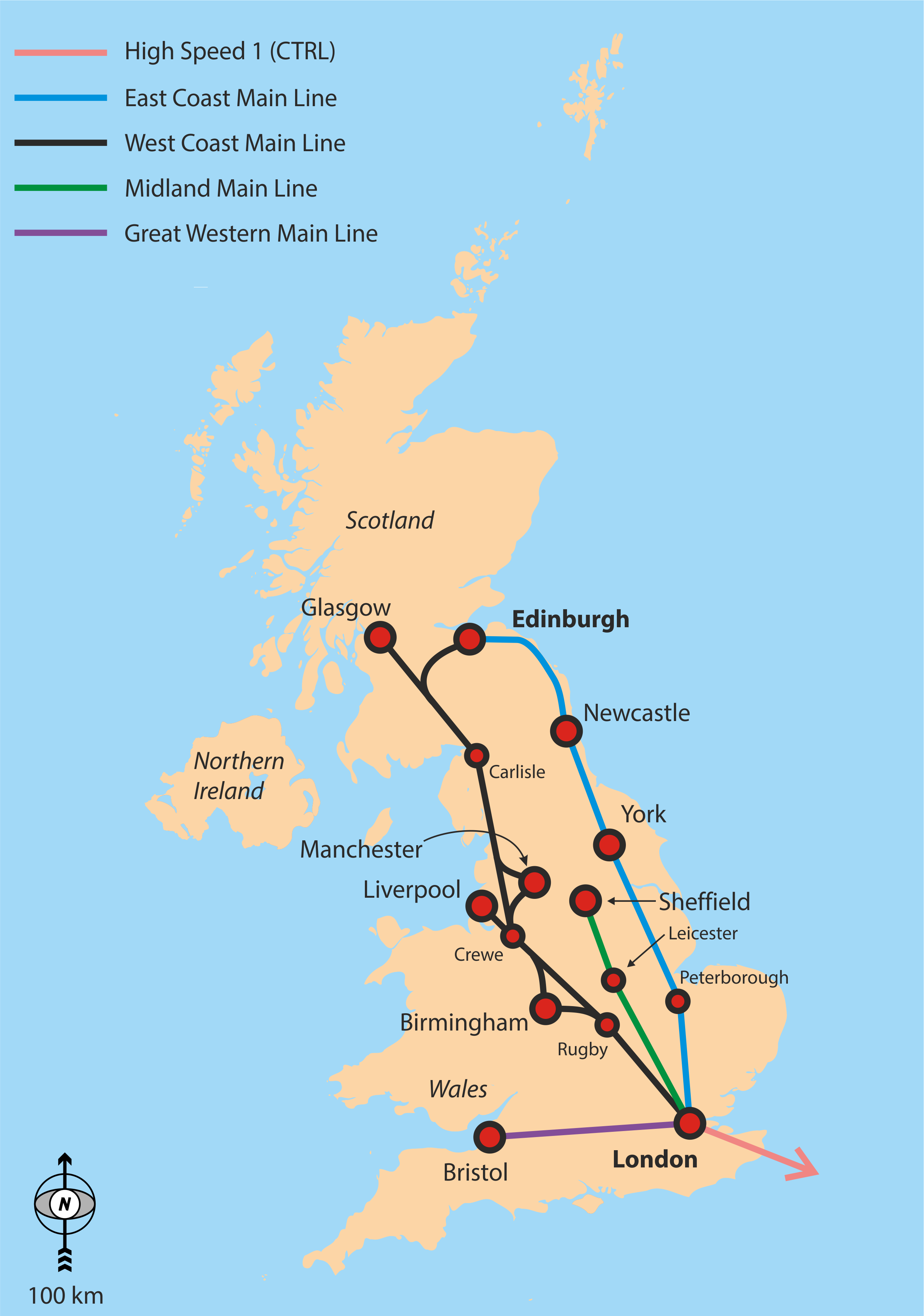 Simple overview map of the WCML, ECML, Midland Main Line and CTRL.